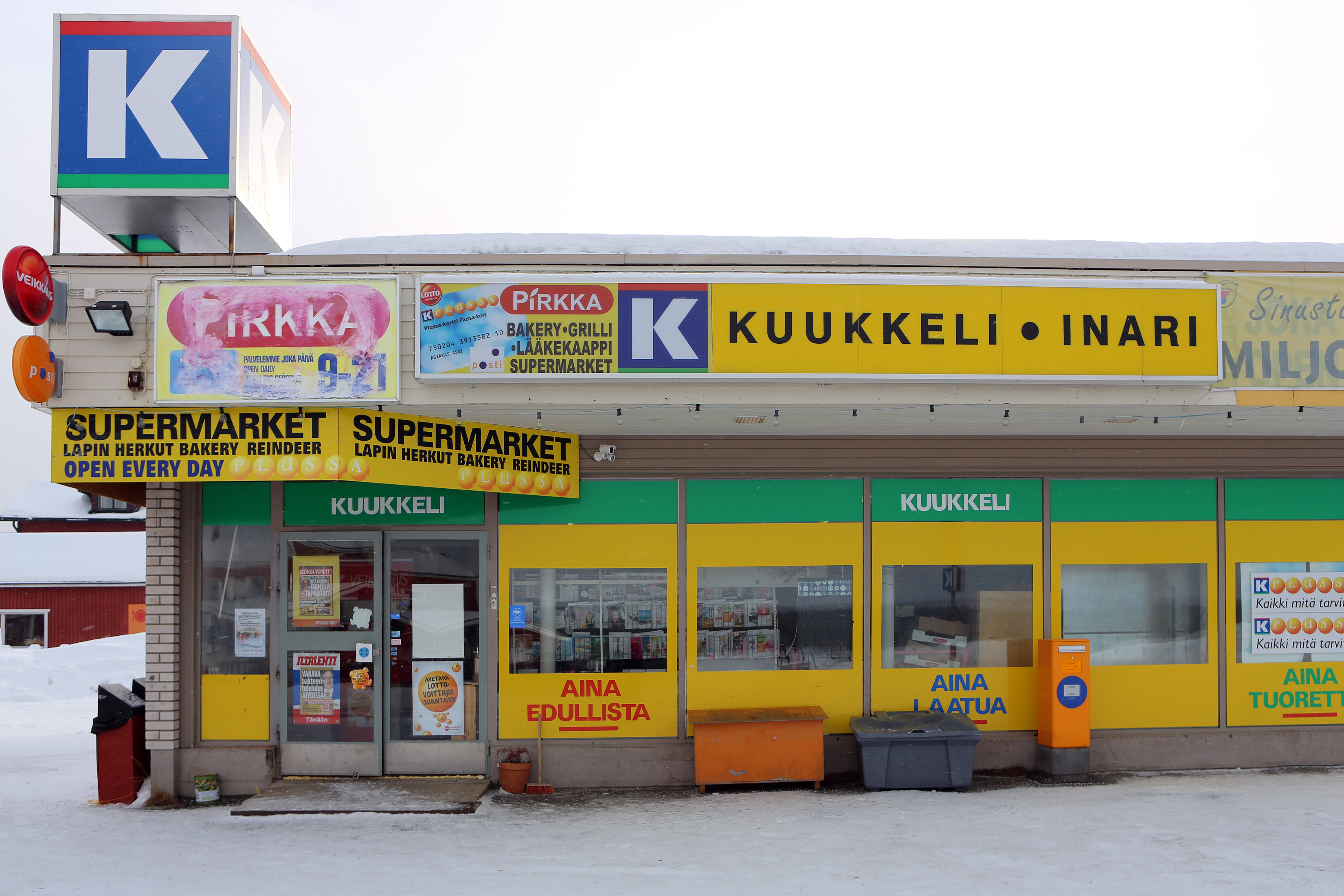 Supermarket in Inari, municipality of Inari, Finland.